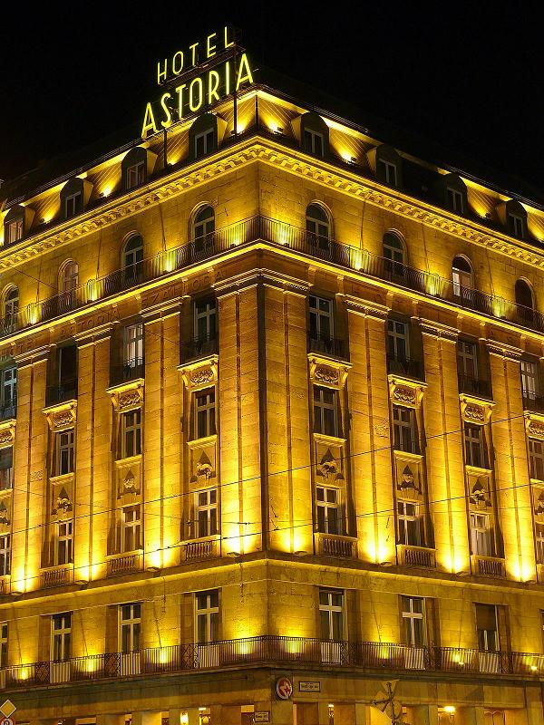 Hotel Astoria in Budapest by Rezső Hikisch and Emil Ágoston in 1912–14